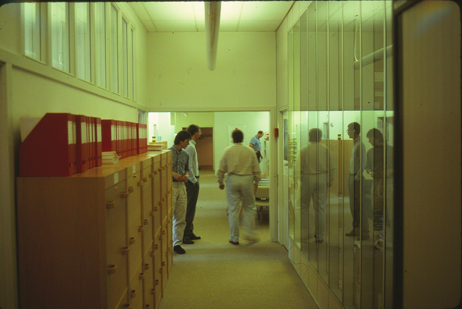 A corridor in the offices of DDC International A/S, a software development firm located in the converted Dansk Cardin and Textil Fabrik building in Lyngby, Denmark. Several of DDC-I's Ada compiler developers are visible at the end of the hallway. The image also shows some Danish office design elements.